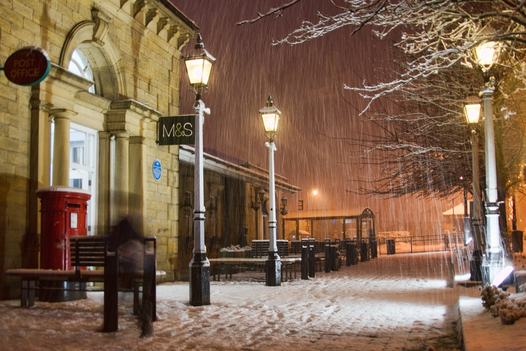 In late 2010, temperatures in parts of the UK plummeted to the coldest on record for November. This shot depicts the area outside Ilkley Post Office (on Railway Road) being liberally dusted with icy precipitation. A copy of this file can be found online in its original resolution at this address.